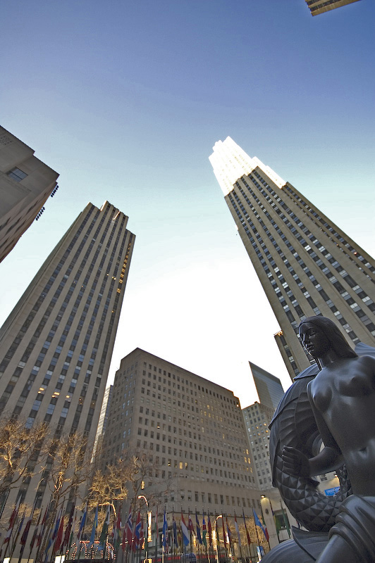 Rockefeller Center, New York City